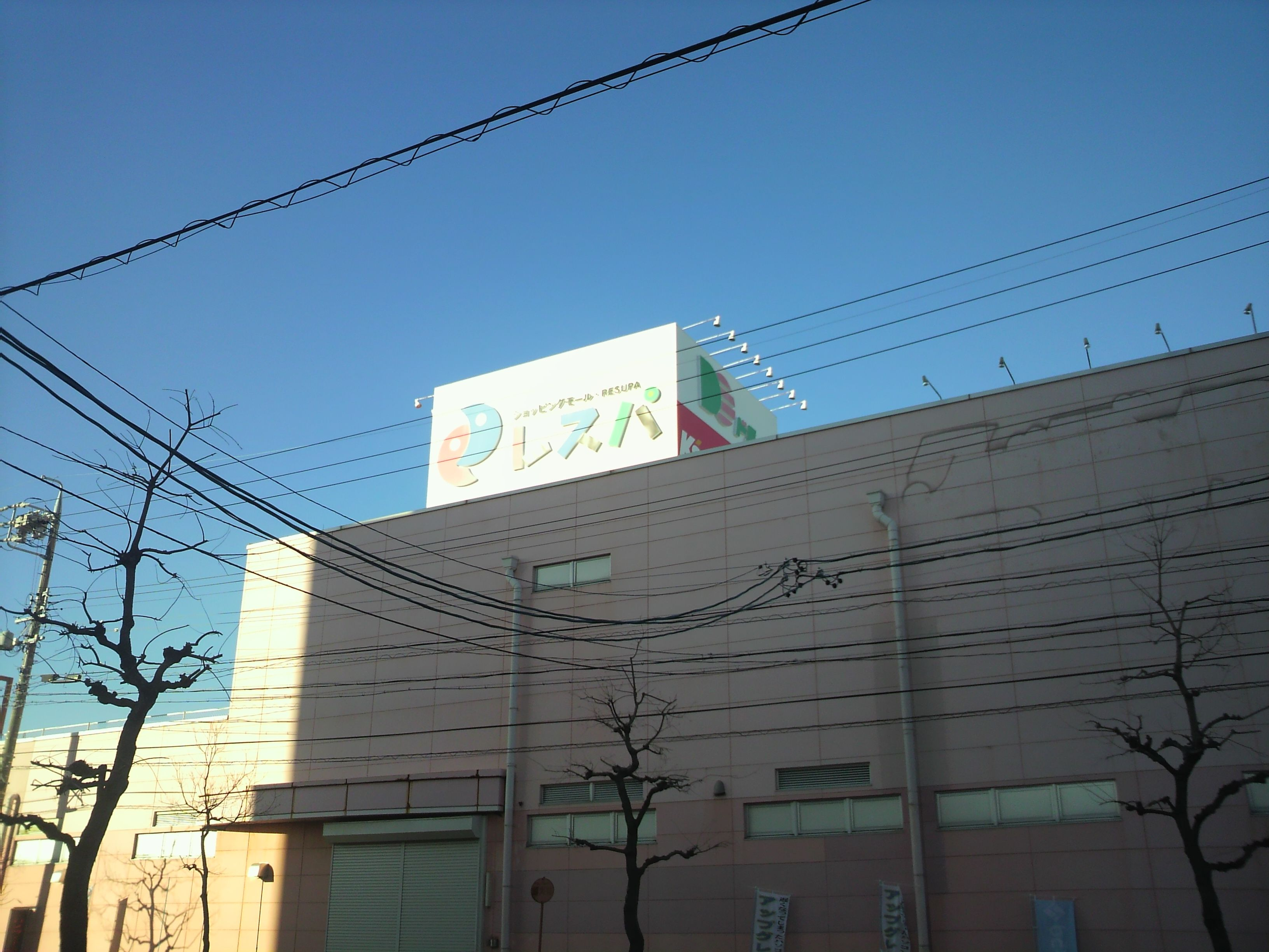 Shopping Mall Resupa